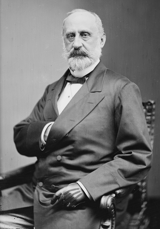 TITLE: Hon. Charles Devens of Mass. Atty Gen. Hayes Cabinet CREATED/PUBLISHED: [between 1865 and 1880] Category:United States history images